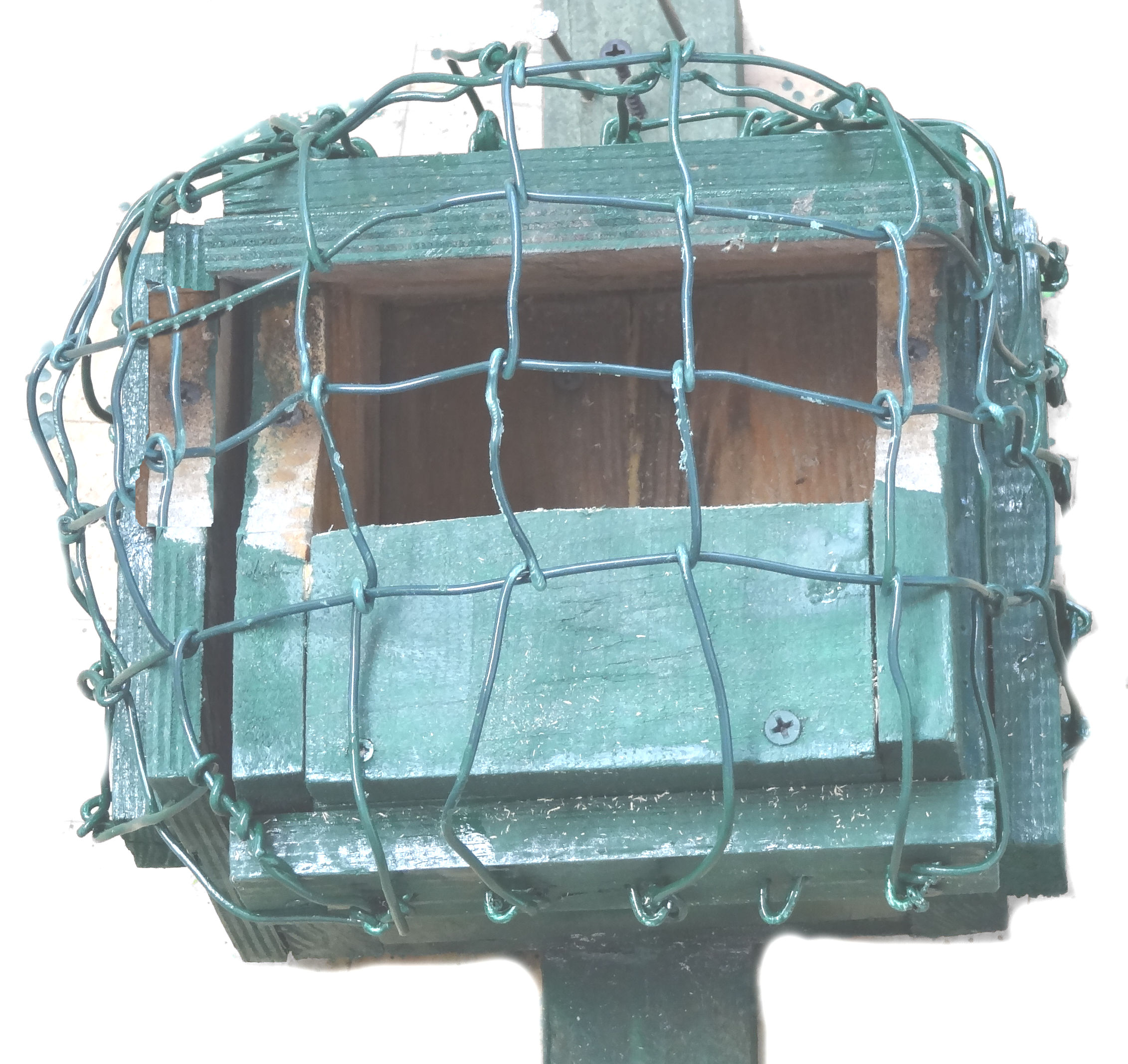 nest box